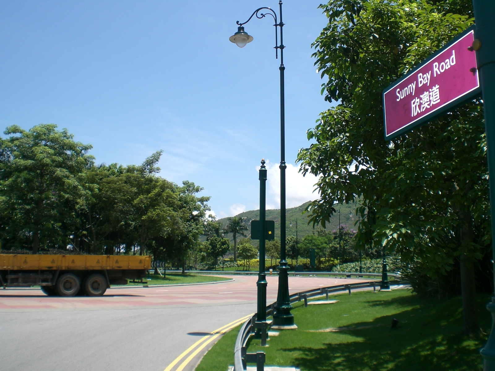 大嶼山欣澳道 June 16th, 2007 夏天 路上裝設有zh:街燈